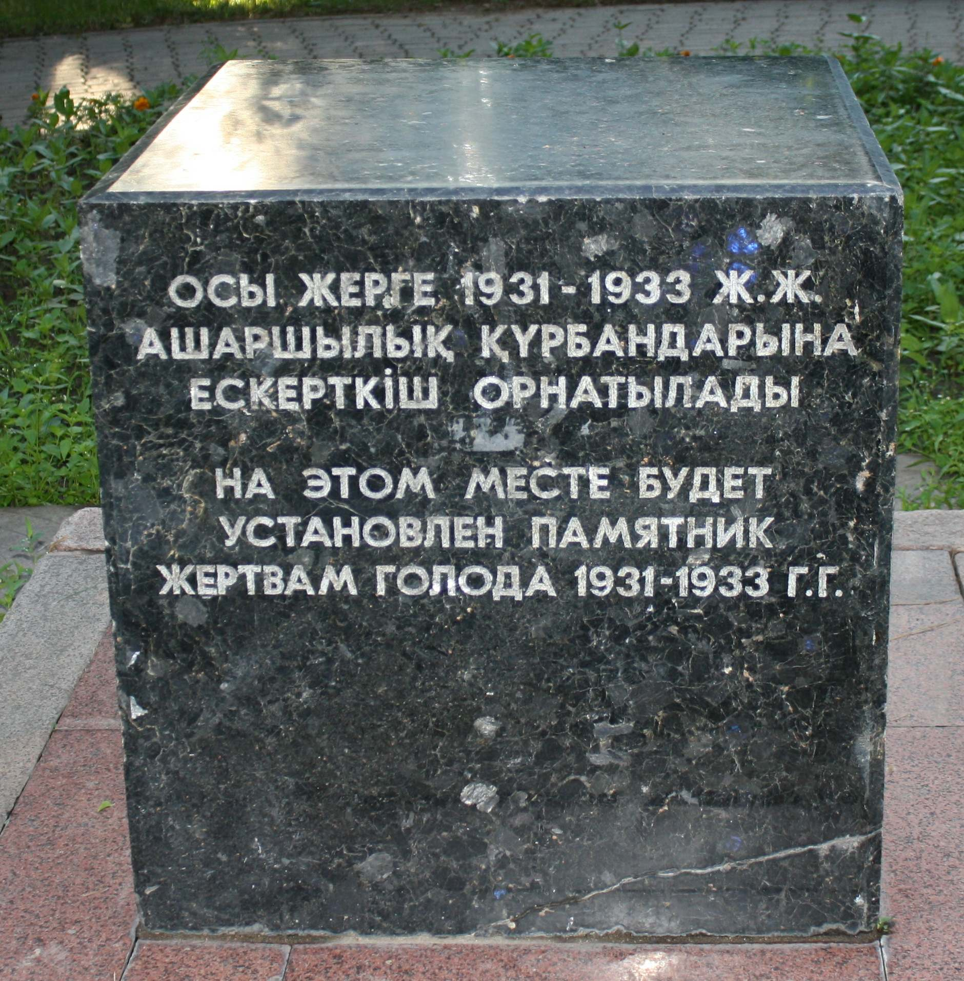 The cube at the site for future monuments for victims of the Soviet famine (1931-1933) in the center of Almaty, Kazakhstan